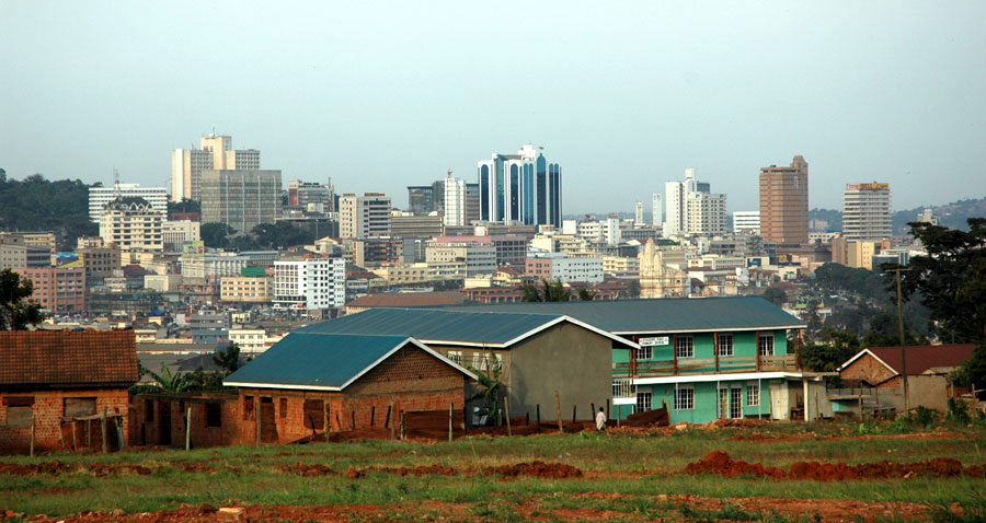 Skyline of Kampala, Uganda